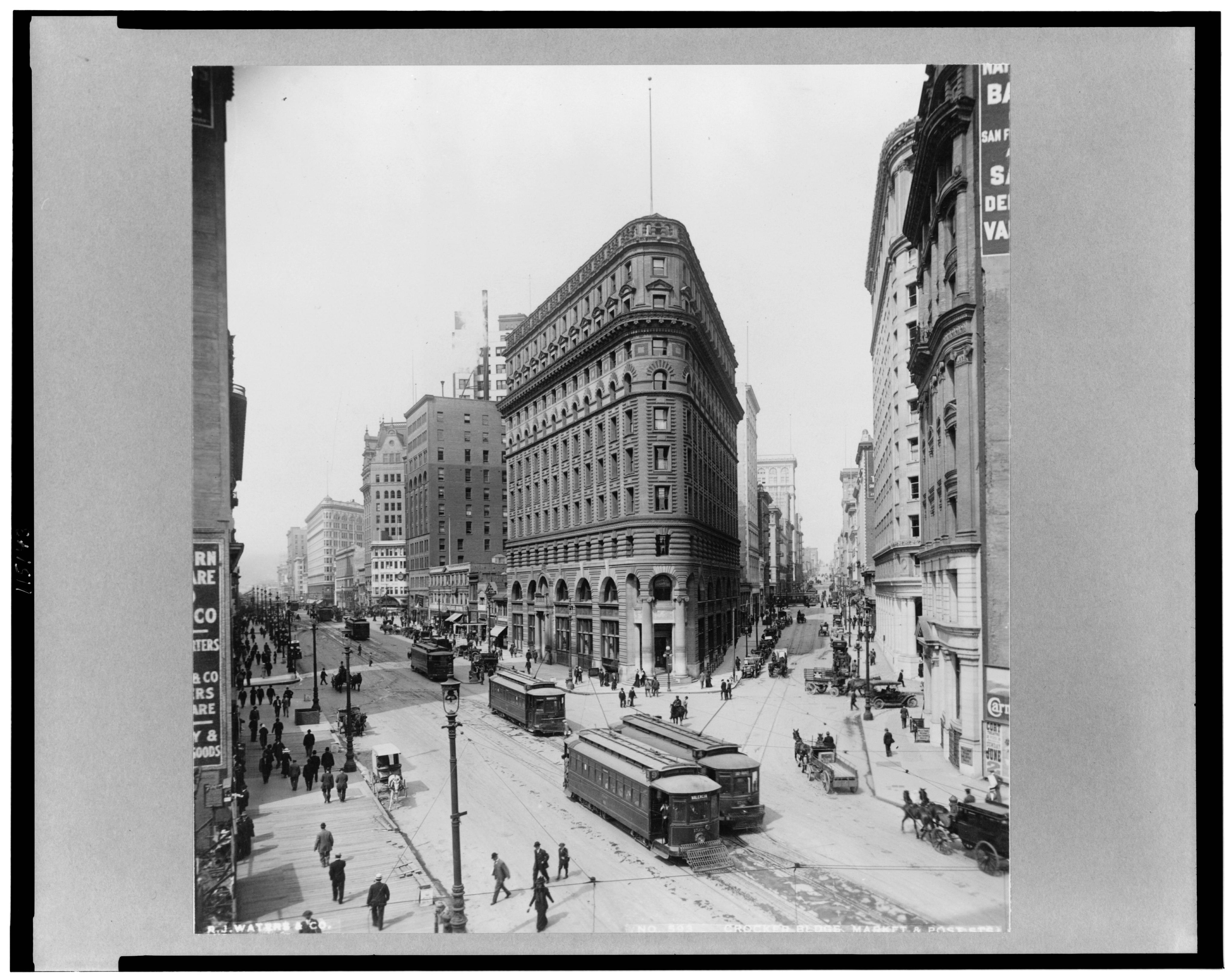 Title: Crocker Bldgs., Market & Post Sts. Abstract/medium: 1 photographic print.